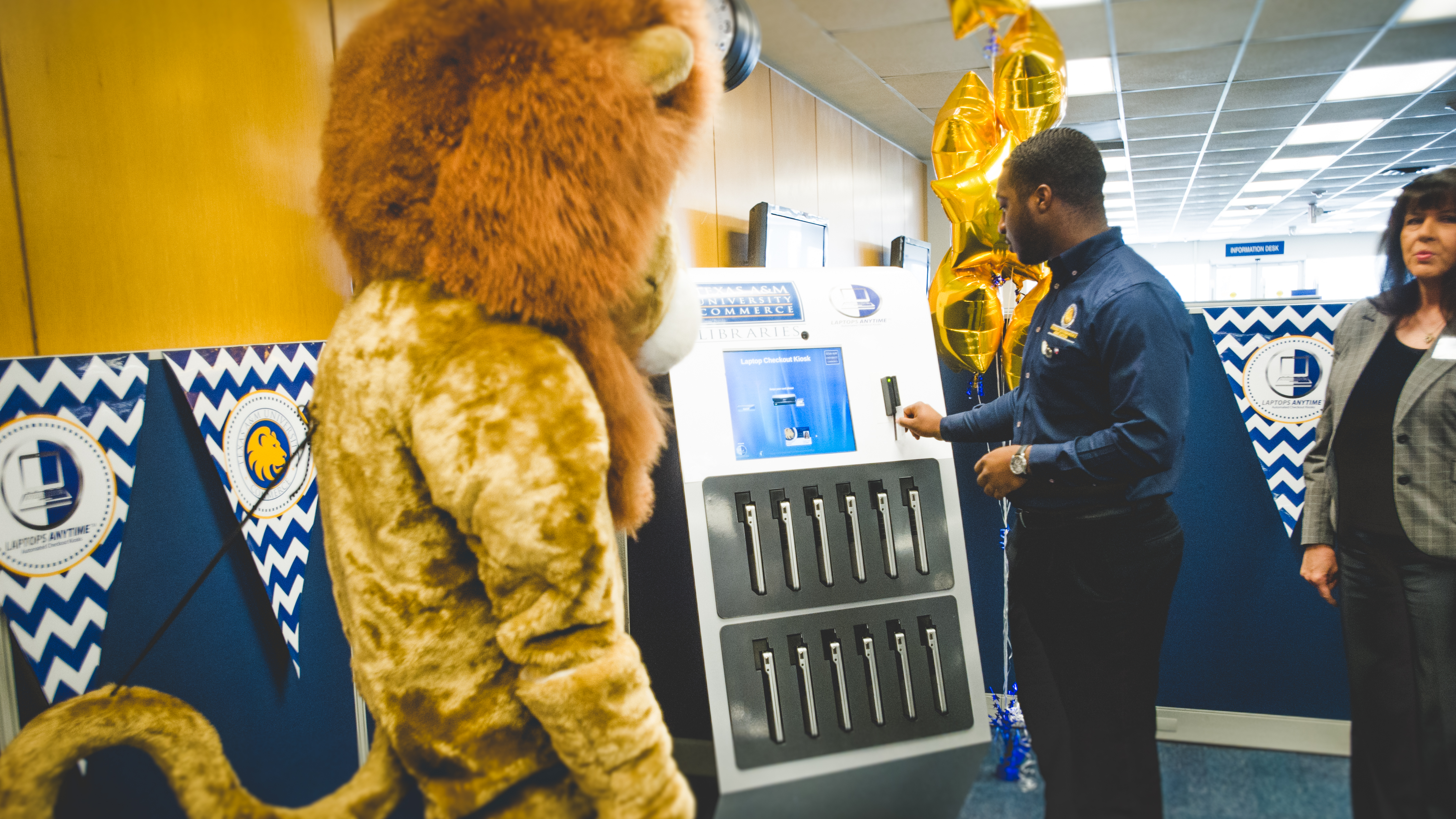 13394-Laptops Anytime Launch-6629.jpg Laptops Anytime launch at Texas A&M University–Commerce